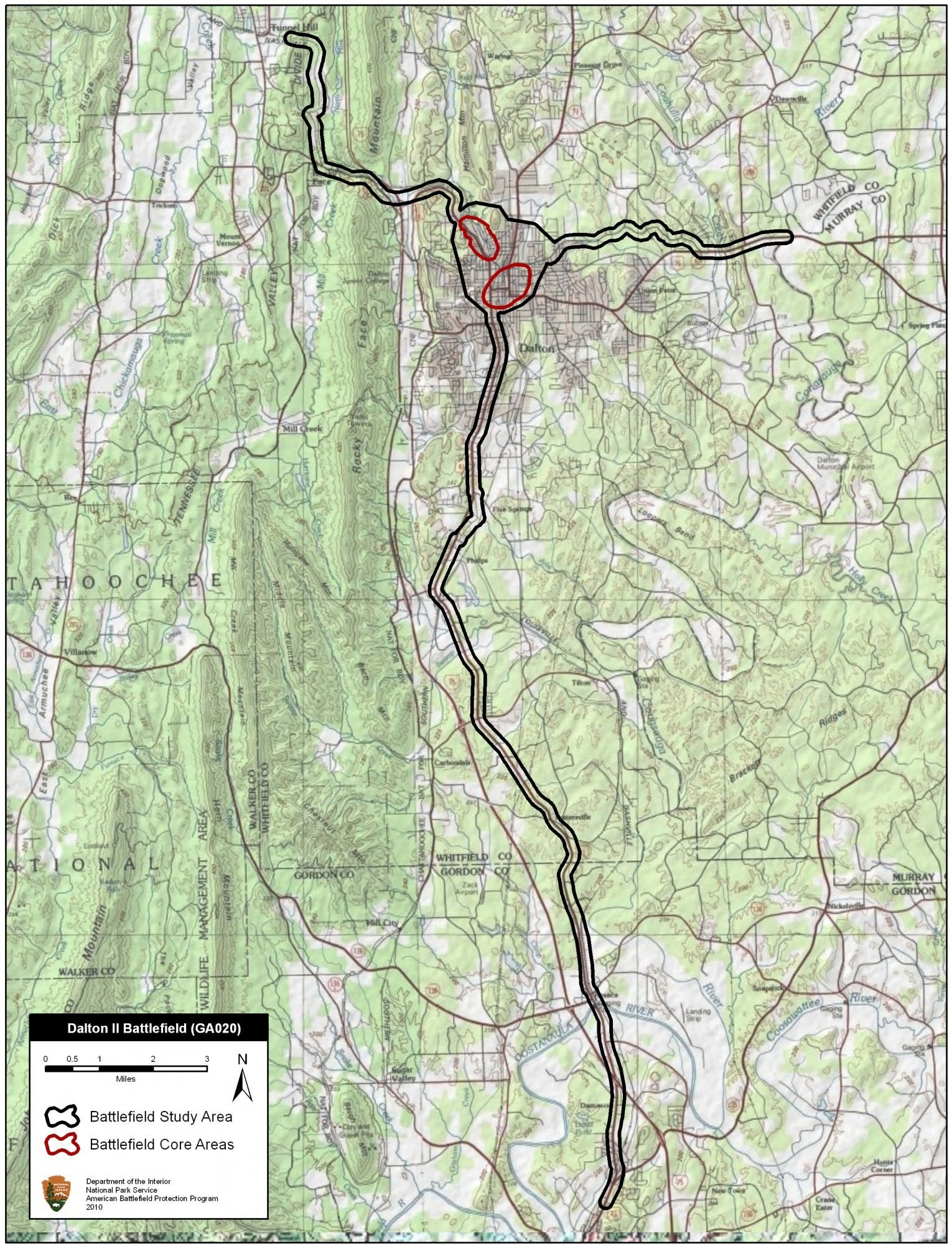 Map of battlefield core and study areas. The Study Area includes roads used by the Confederate cavalry in its raids behind Union lines. The boundary also includes the Western & Atlantic Railroad line used to bring Union reinforcements to the battlefield. The Core Areas represent the specific fighting around Fort Hill and the Confederate attack on the Federal reinforcing column at the base of Mount Rachel.